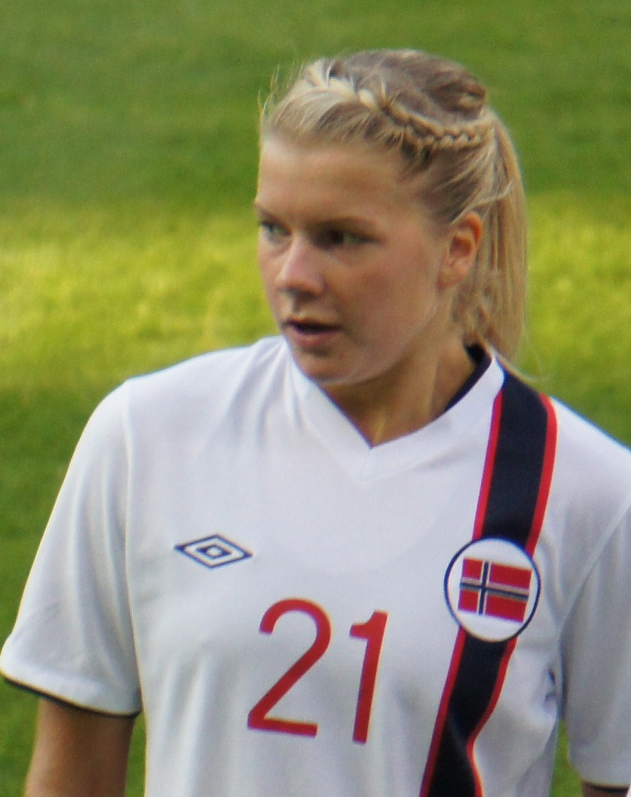 Ada Hegerberg, norwegian women's association football player.